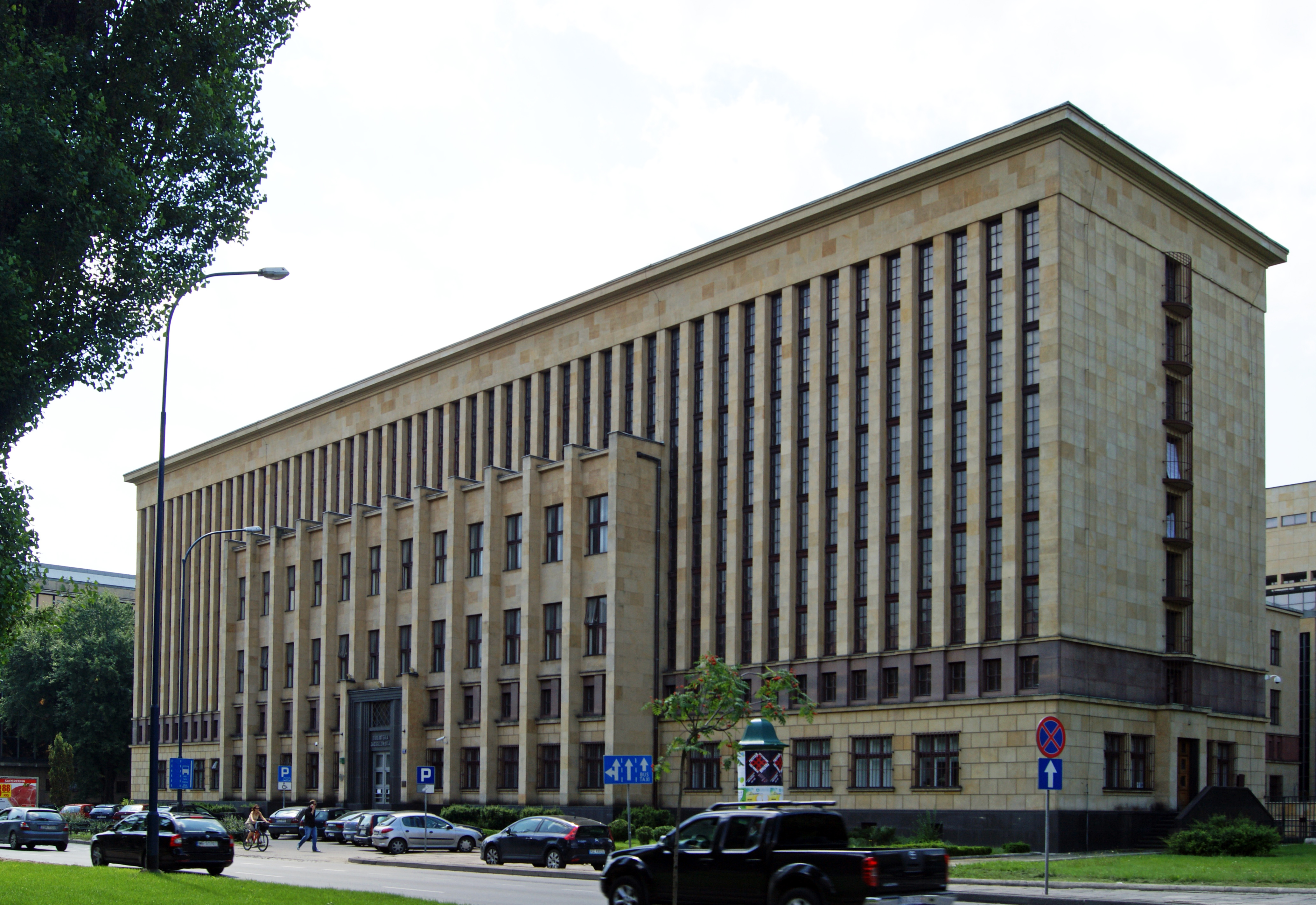 Jagiellonian Library (old building), 22 Mickiewicza Av, Krakow, Poland